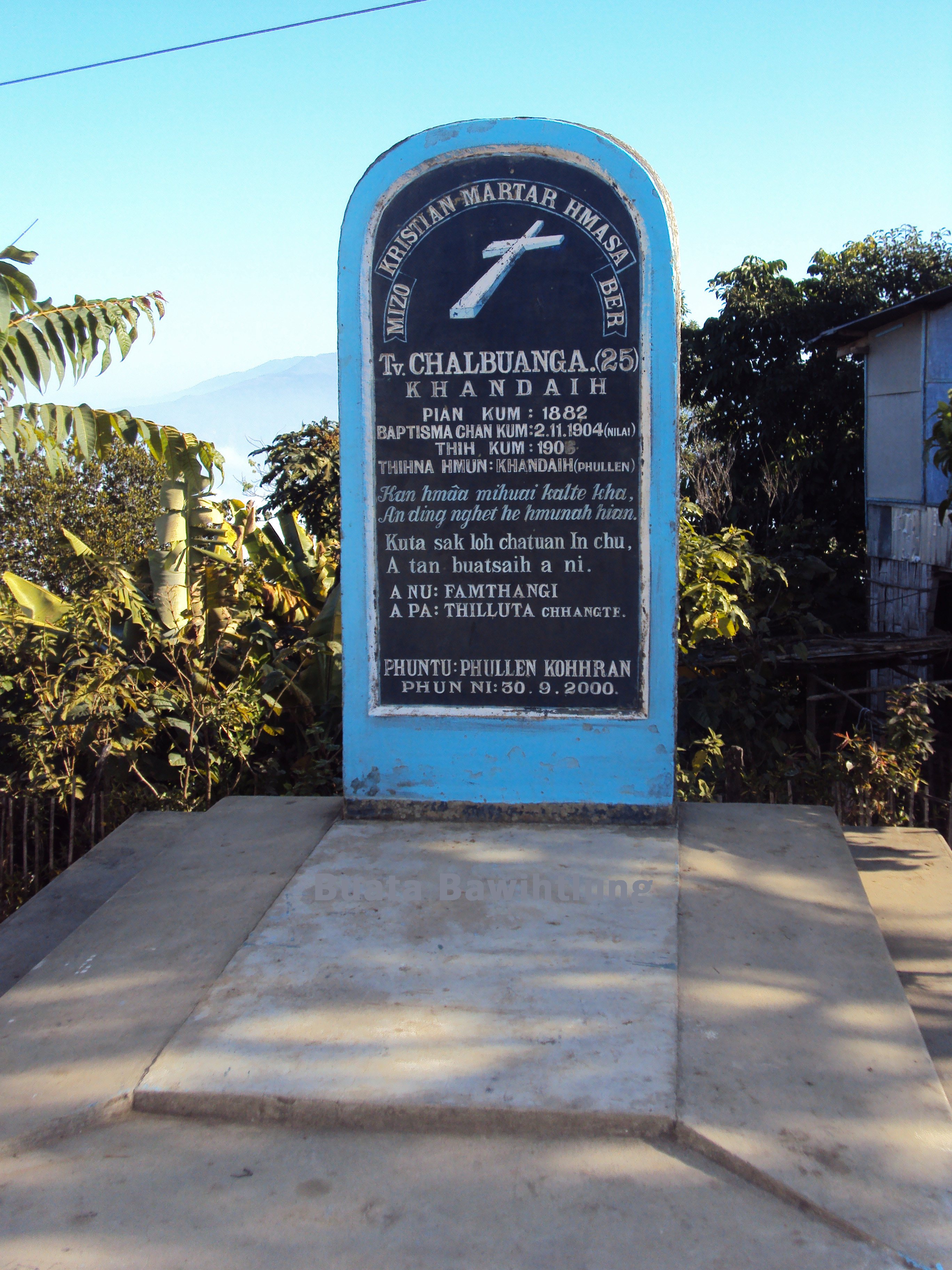 Chalbuanga was the first Mizo Christian Martar in Mizoram, died in 1906 at Khandaih (Phullen).